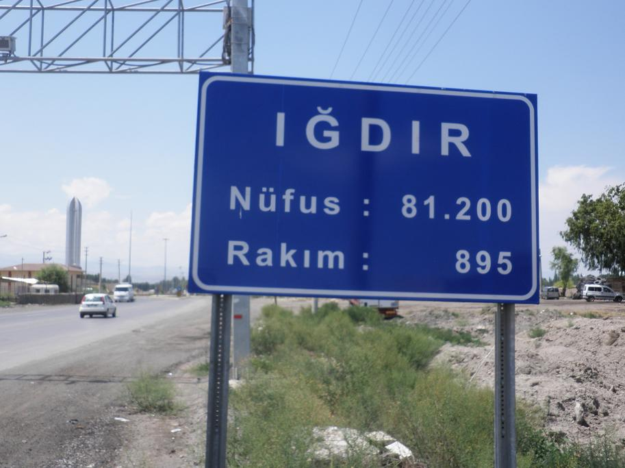 The entrance of Iğdır City Center (2012)